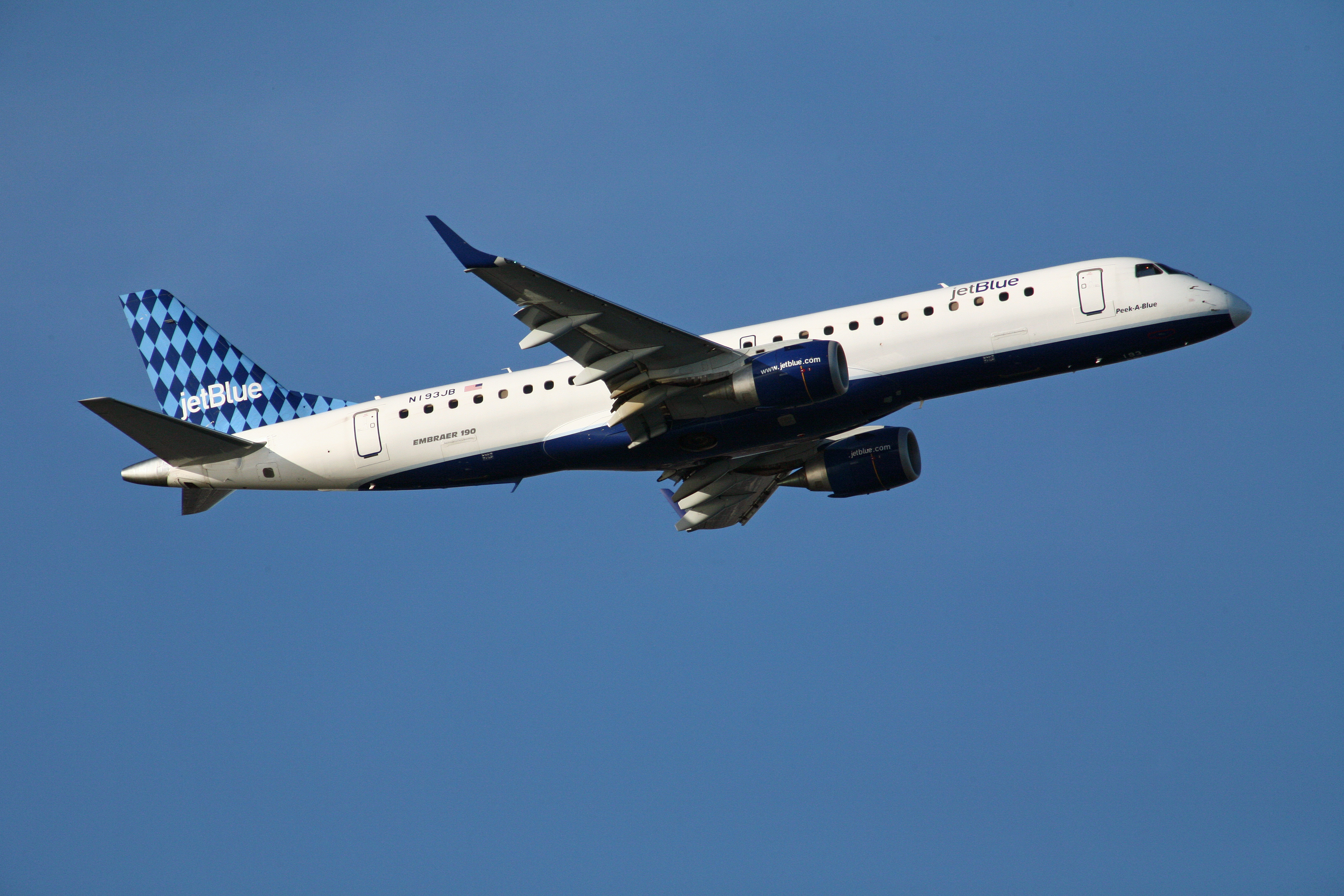 JetBlue Embraer 190 "Peek A Blue"